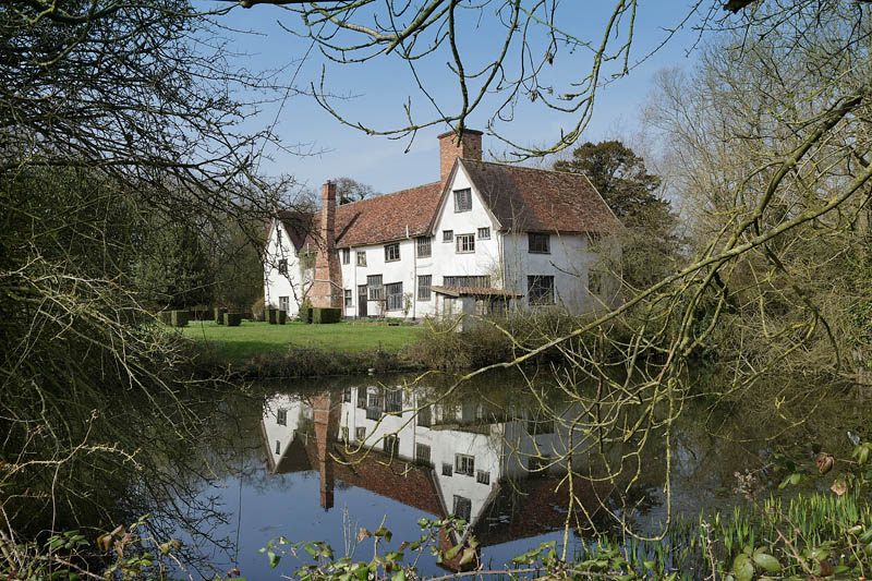 View of Ufford Hall, Fressingfield, Suffolk